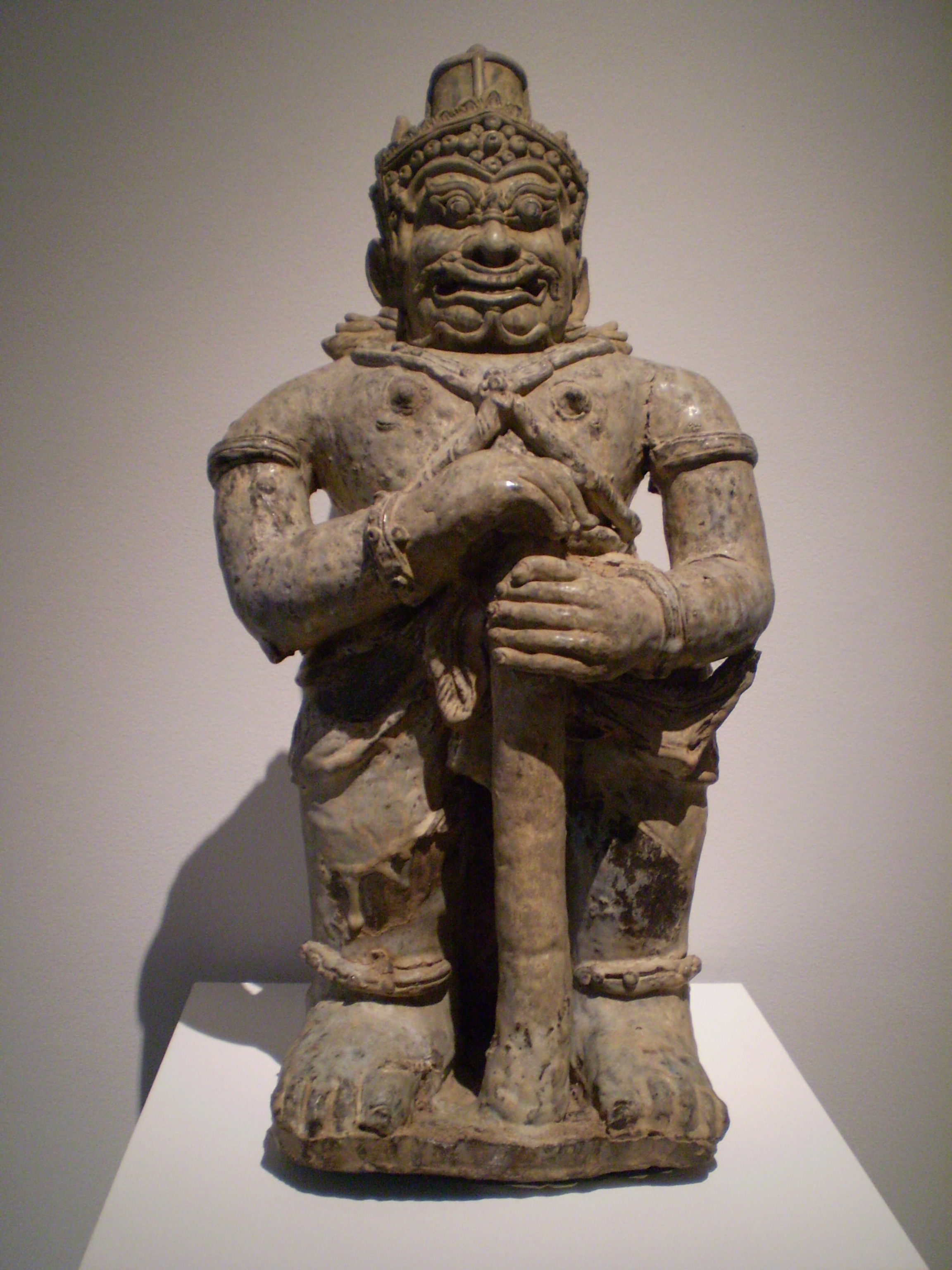 From the Harn Museum of Art: Guardian figure (Dvarapala) 15th century Glazed stonewear Gift of Gordon and Joan Phelps 2007.1 This fierce-looking creature is a kind of Buddhist guardian figure called a dvarapala. Dvarapala were traditionally placed outside Buddhist temples to protect the holy spaces within. Depending on the size and wealth of the temple, the guardians could be placed singly, in pairs or in larger groups. The sculpture is made of a high-fired stoneware clay covered with a pale, almost milky celadon glaze. Ceramic sculptures of this type were produced in Thailand, during the Sukhothai and Ayutthaya periods, between the 14th and 16th centuries, at several kiln complexes located in northern Thailand.